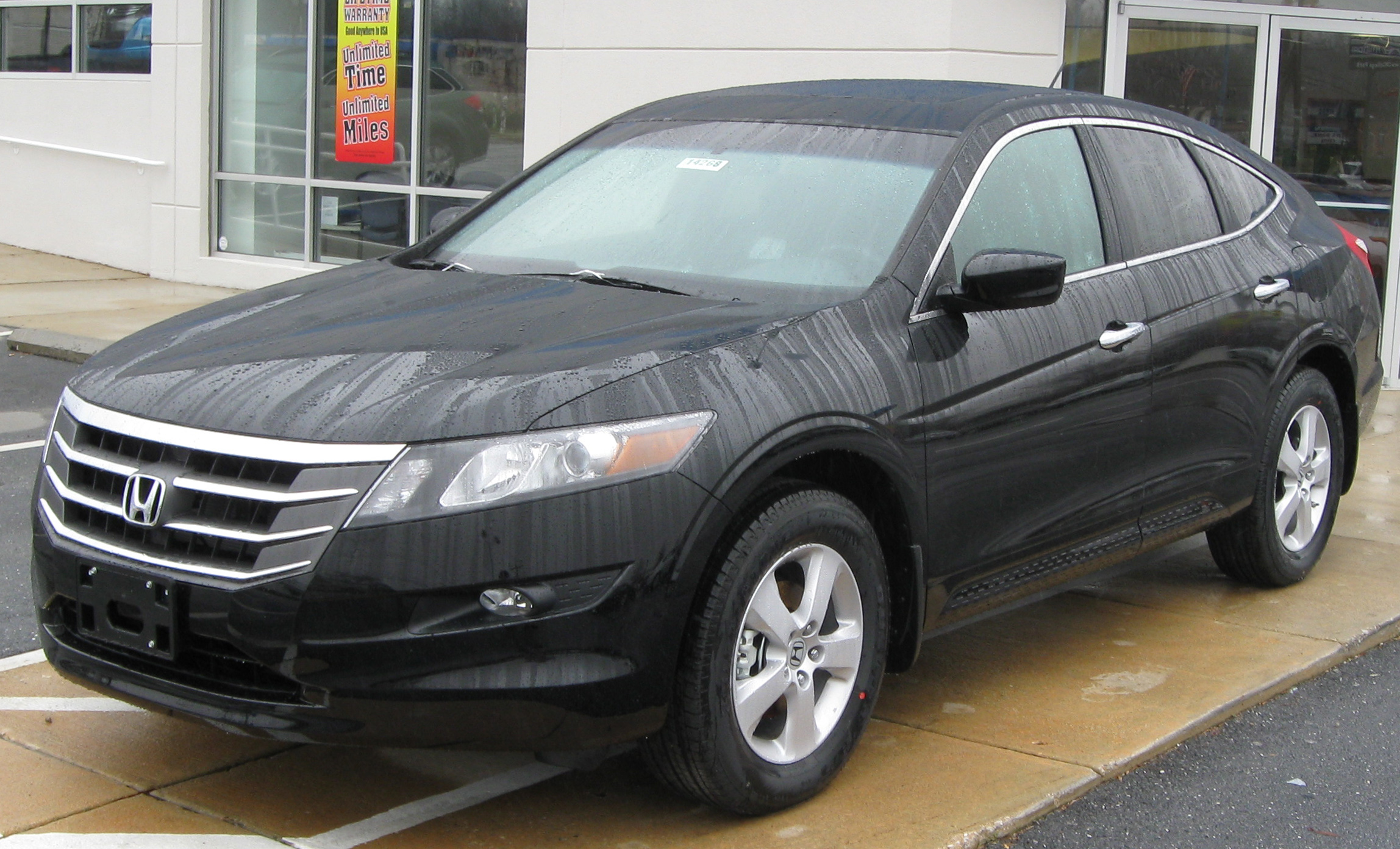 2010 Honda Accord Crosstour photographed in College Park, Maryland, USA.